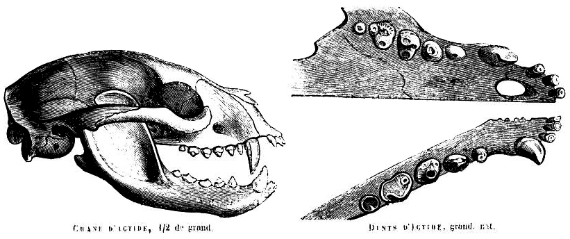 Binturong skull and dentition